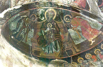 Saint Apostles Church in Molyvdoskepastos Platytera 1645